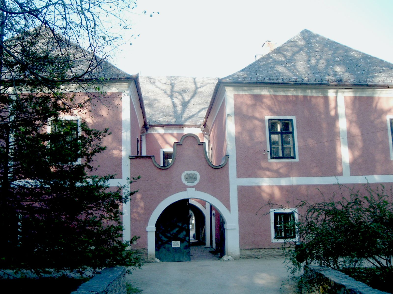 The Sibrik-castle in Bozsok, Hungary